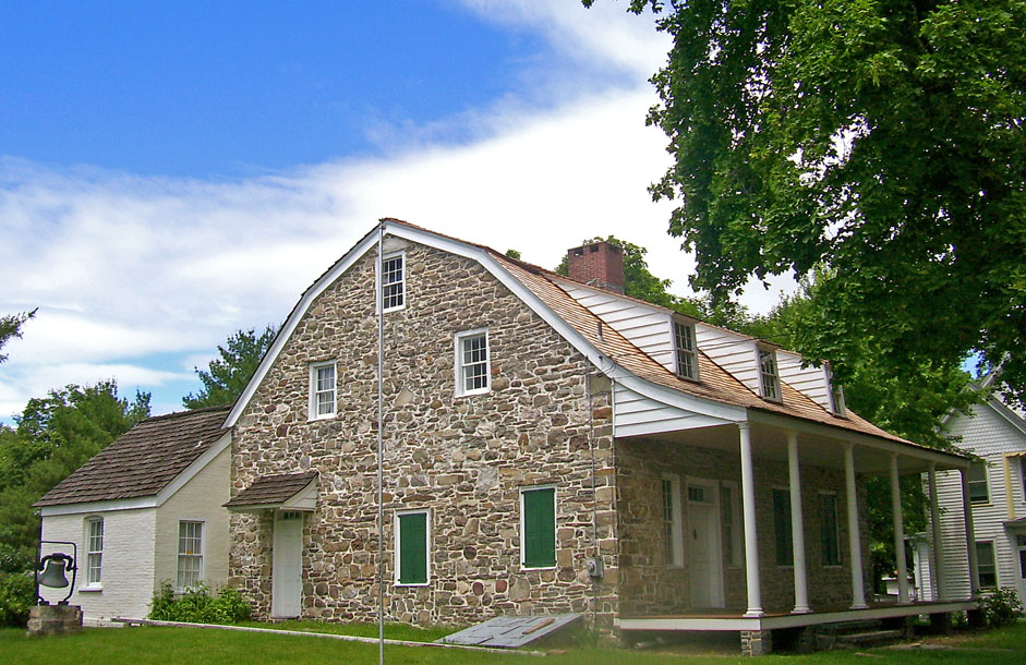 Photographed by Daniel Case 2006-06-11